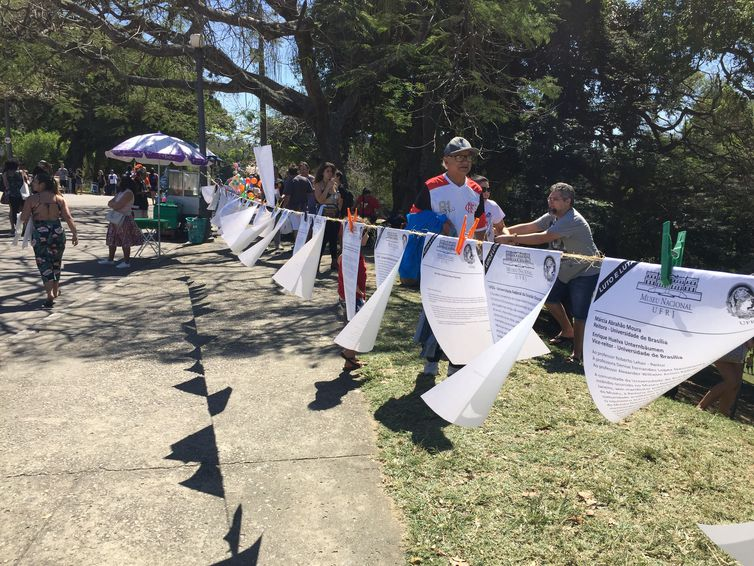 Solidarity show with the National Museum of Brazil in the Boa Vista Park after the September fire.